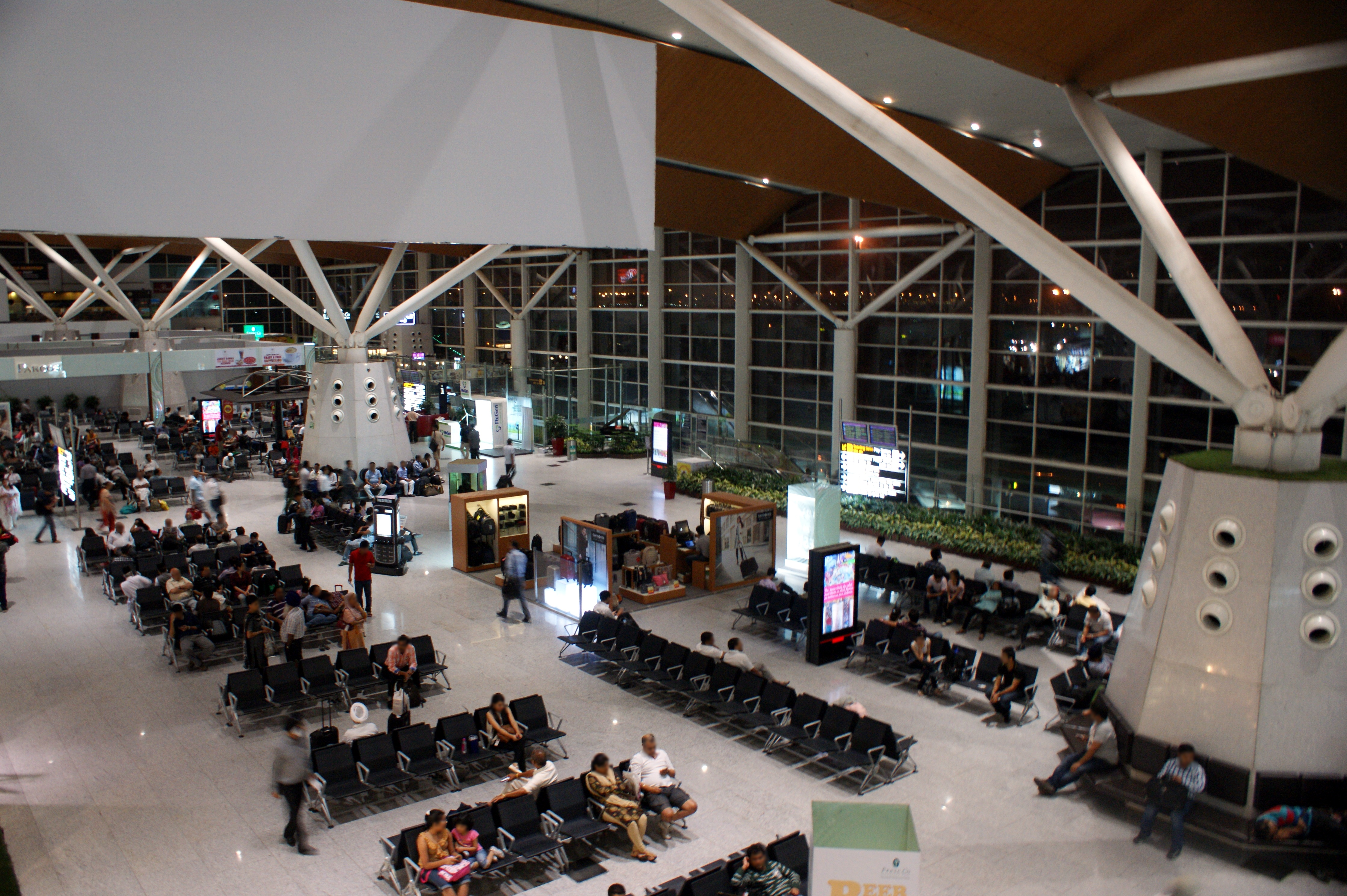 Waiting Area of the Domestic Airport